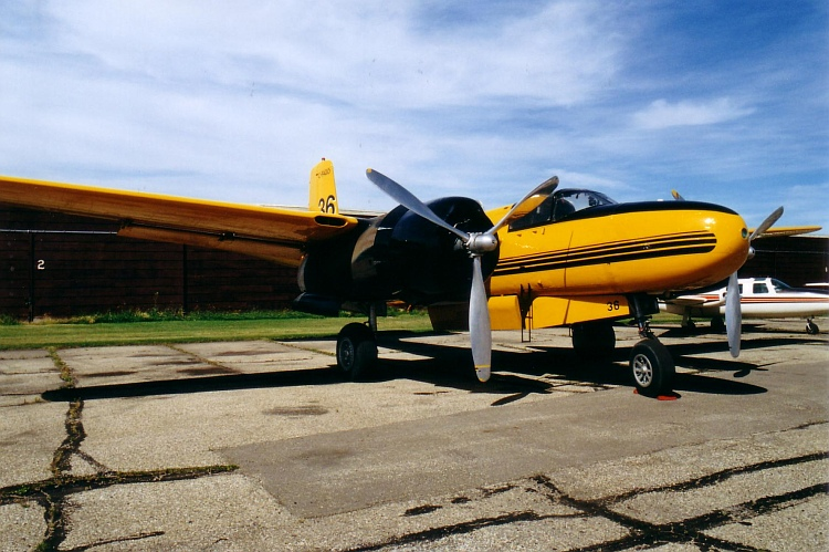 I took this photo of a Douglas A-26C Invader belonging to Air Spray (1967) Ltd at Red Deer in 2000.